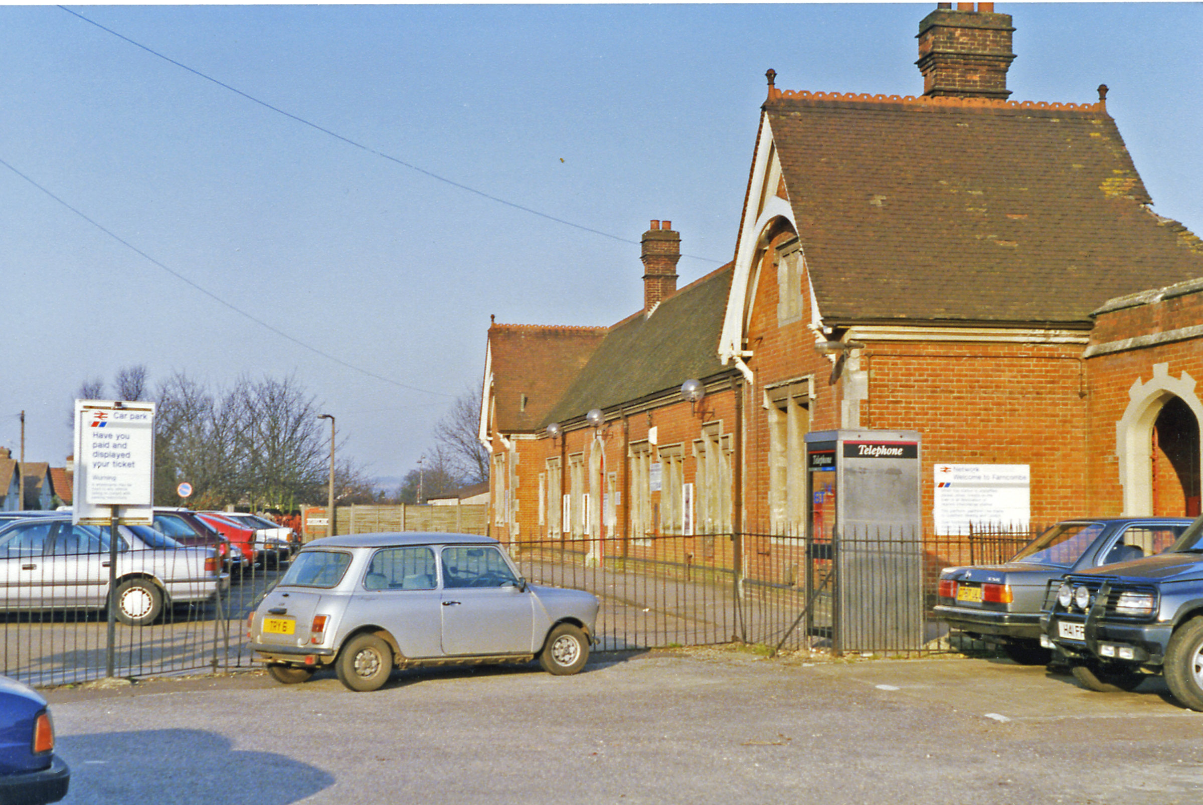 Farncombe station, exterior 1993. View NE, towards Guildford and London Waterloo: ex-LSWR Waterloo - Guildford - Portsmouth main line.